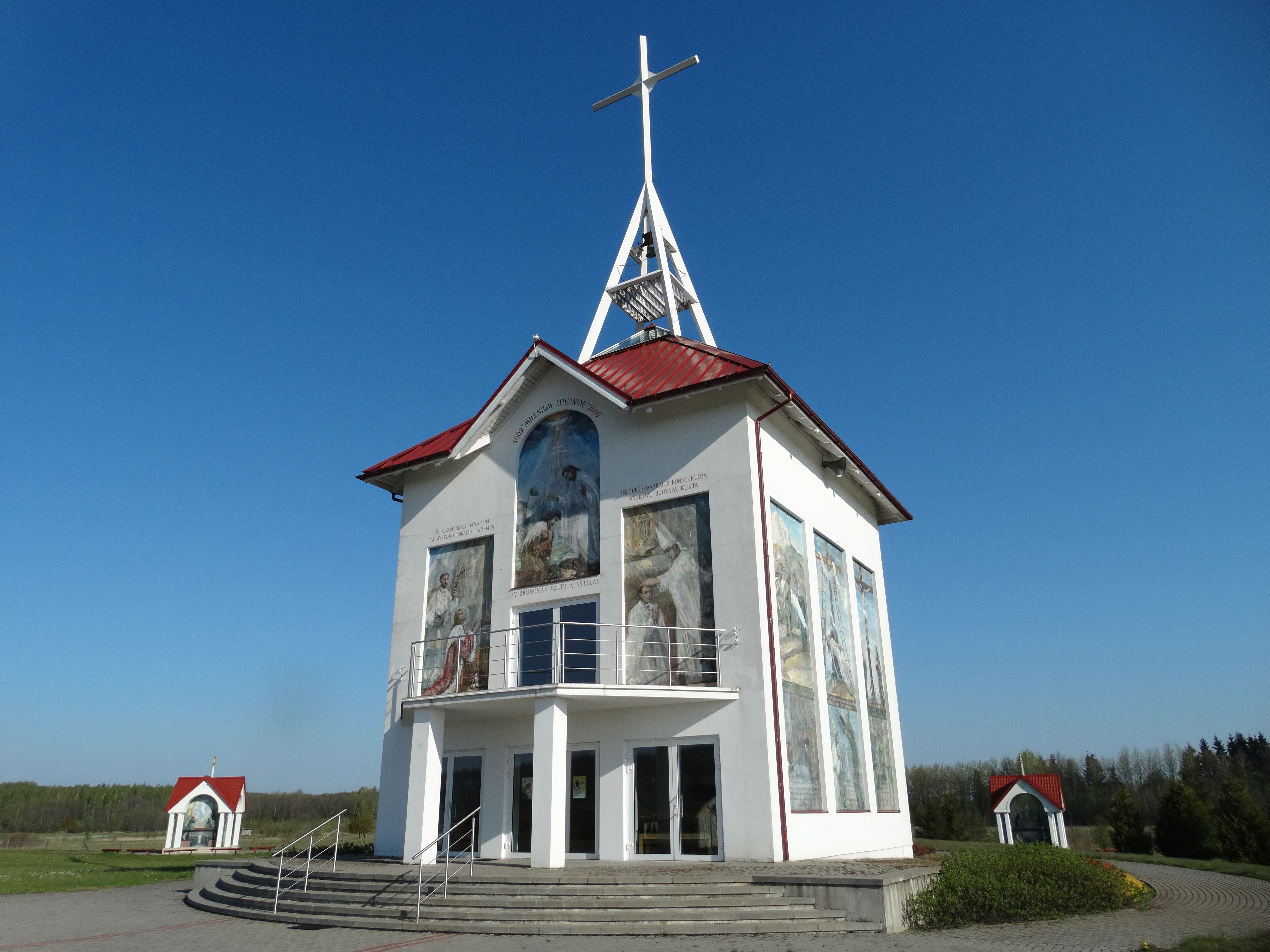 Chapel in Guronys, Kaišiadorys District, Lithuania